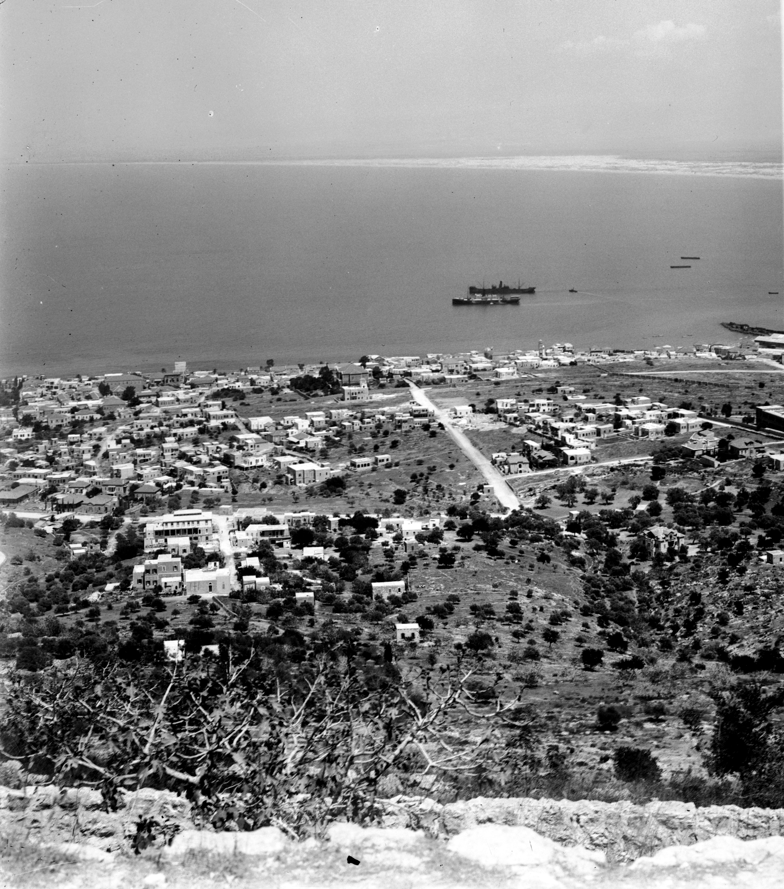 Right half of stereo pair Description information copied from Library of Congress website: TITLE: Along the sea coast. Haifa and bay, showing place of anchorage. CALL NUMBER: LC-M32- B-175[P&P] REPRODUCTION NUMBER: LC-DIG-matpc-05575 (digital file from original photo), LC-M3201-B175 (b&w film copy negative) RIGHTS INFORMATION: No known restrictions on publication. MEDIUM: 1 negative : glass, stereograph, dry plate ; 5 x 7 in. CREATED/PUBLISHED: [approximately 1900 to 1920] CREATOR: American Colony (Jerusalem). Photo Dept., photographer. NOTES: Title from: Catalogue of photographs & lantern slides ... [1936?]. Caption on negative: Haifa and bay, showing place of anchorage. Date from Matson LOT cards. Gift; Episcopal Home; 1978. SUBJECTS: Israel--Haifa. FORMAT: Stereographs. Dry plate negatives. PART OF: G. Eric and Edith Matson Photograph Collection REPOSITORY: Library of Congress Prints and Photographs Division Washington, D.C. 20540 USA DIGITAL ID: (digital file from original photo) matpc 05575 CONTROL #: mpc2004004141/PP